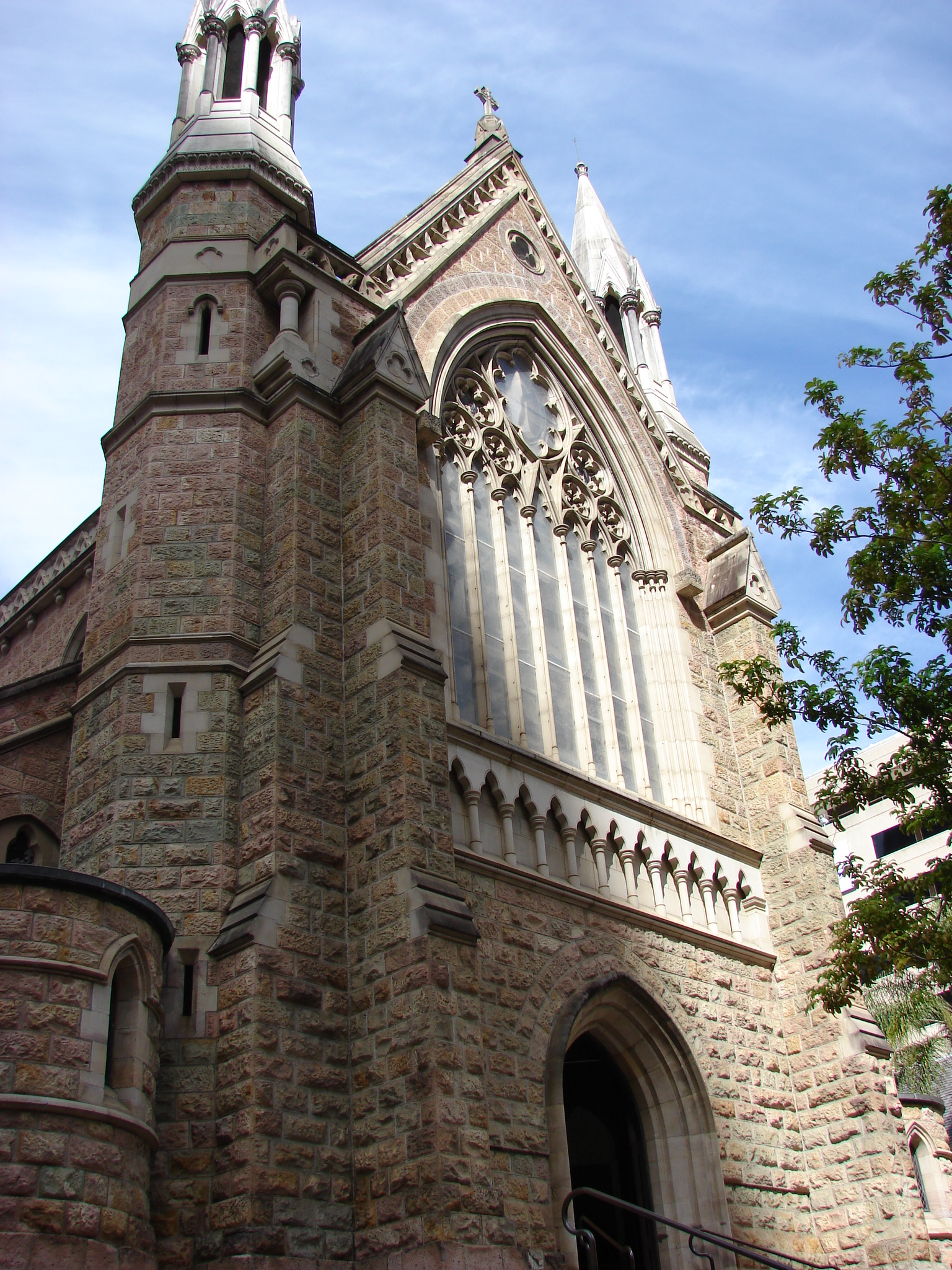 Self-made